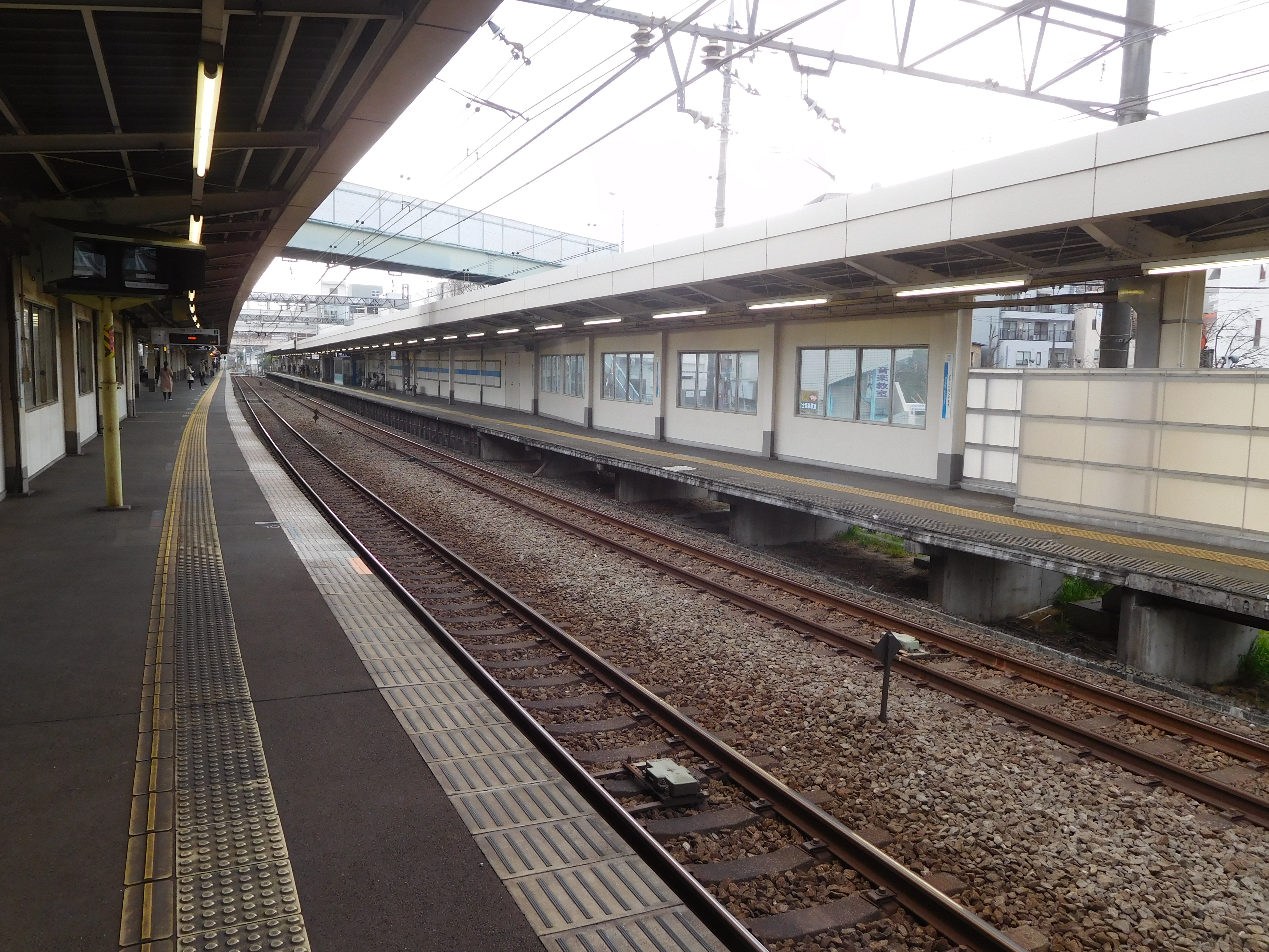 These are platforms of Yomiuri Land Mae station in Kawasaki, Kanagawa, Japan.